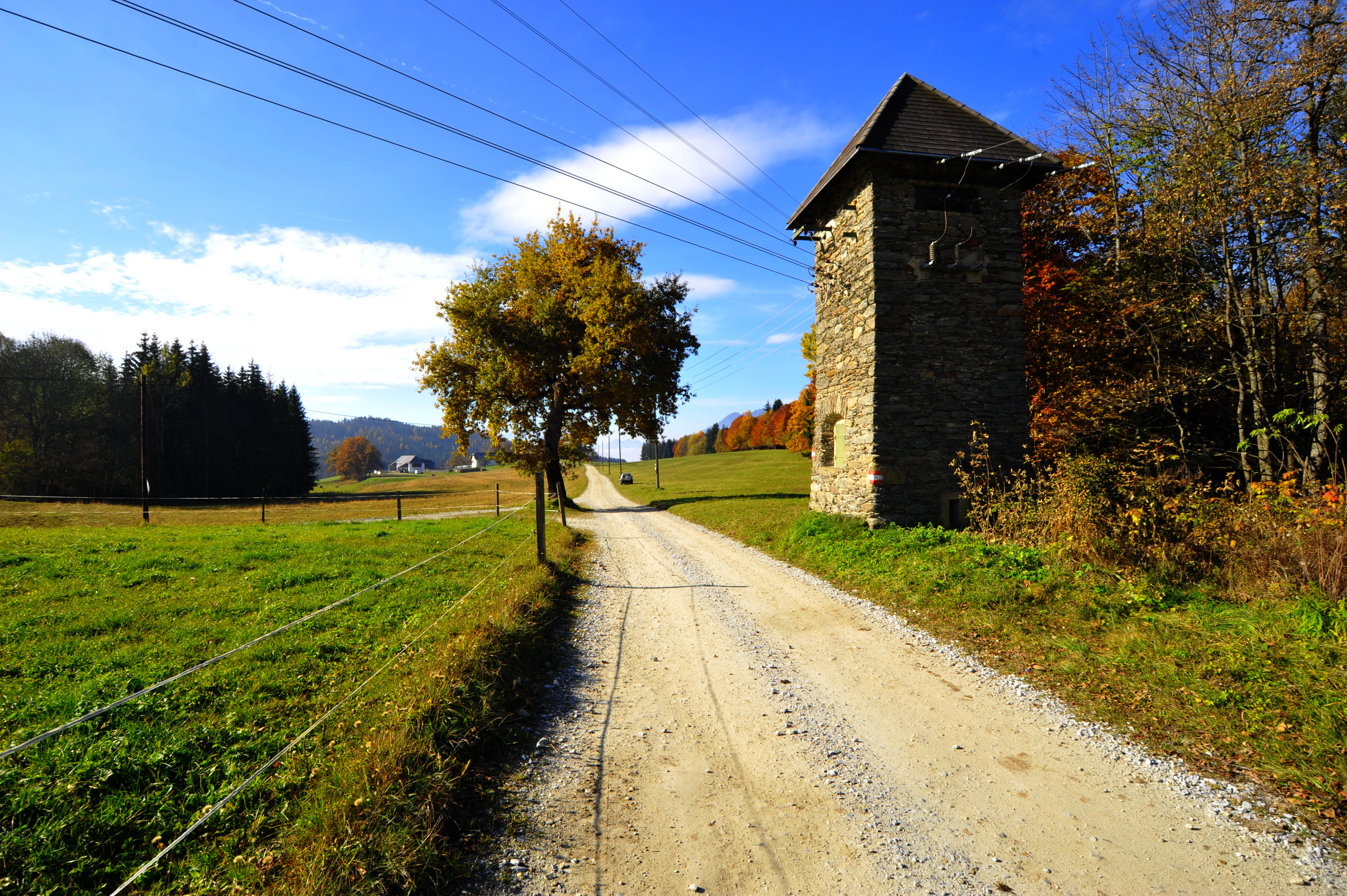 Transformer station near the hamlet Tauern in the municipality Ossiach, district Feldkirchen, Carinthia, Austria